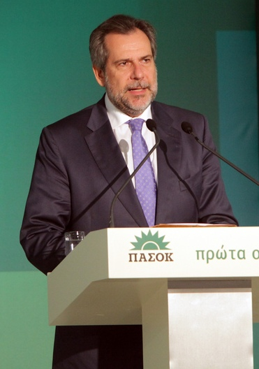 Christos Papoutsis